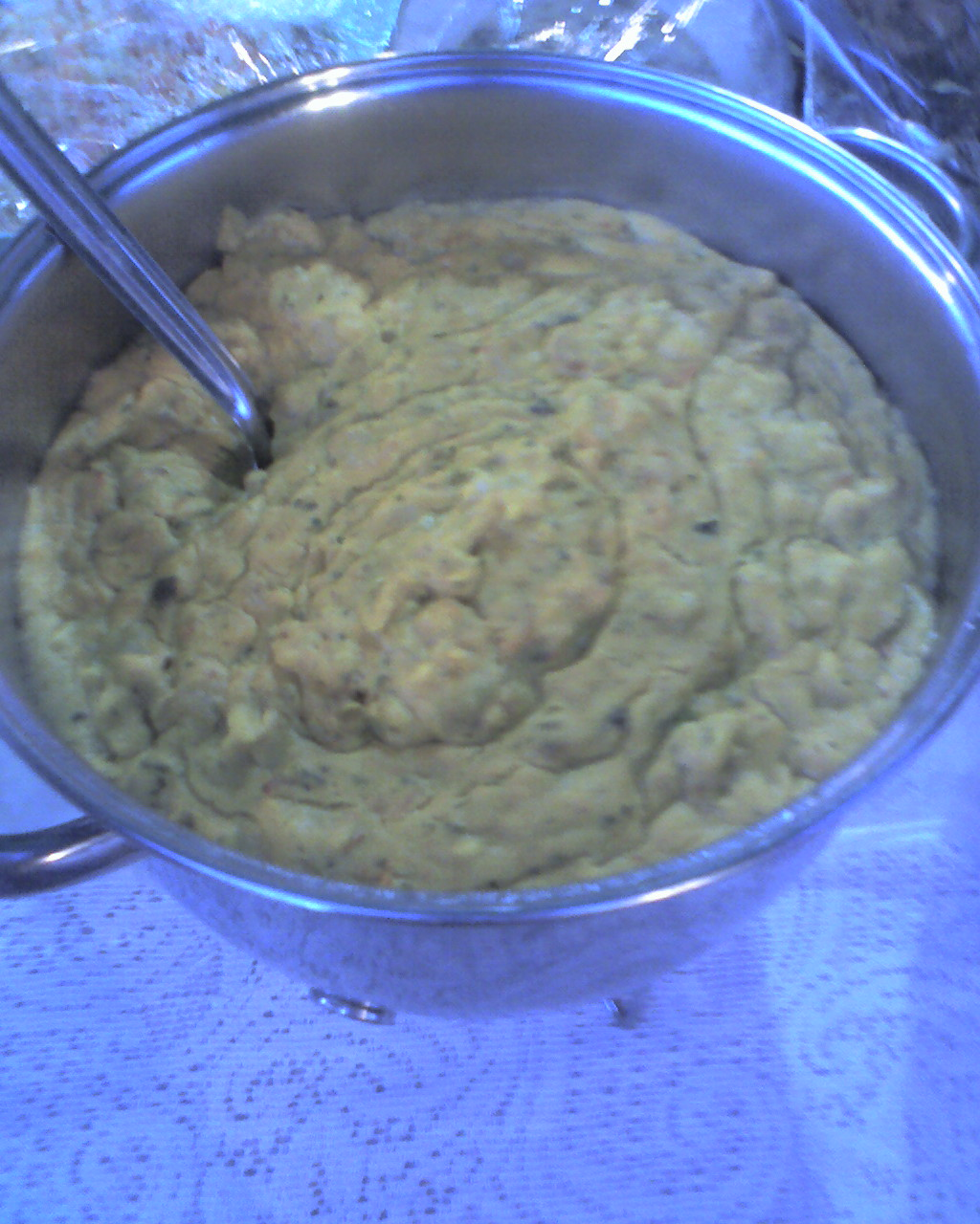 Vatapa brazil food